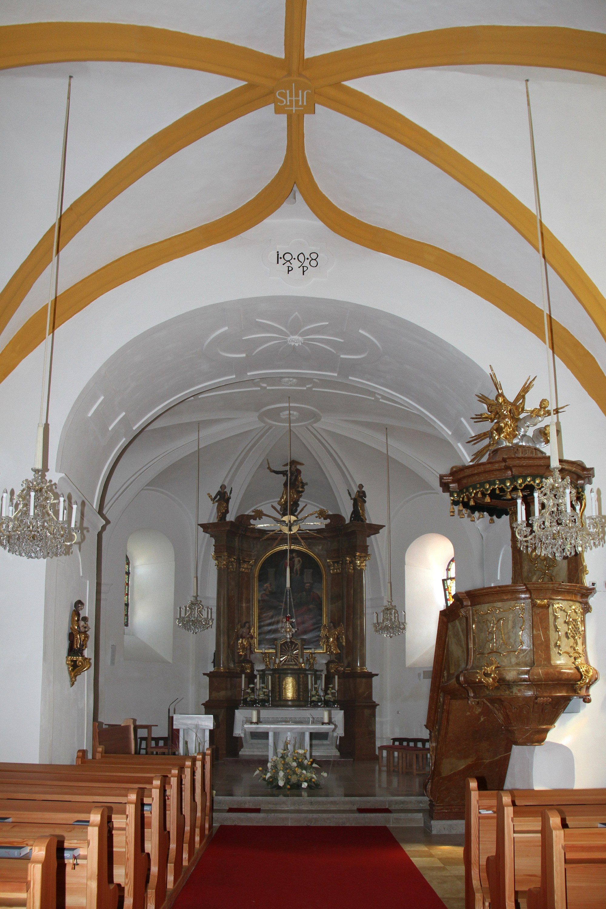 Municipality Wiesmath in Lower Austria. – The photo shows the parish church Saints Peter and Paul.